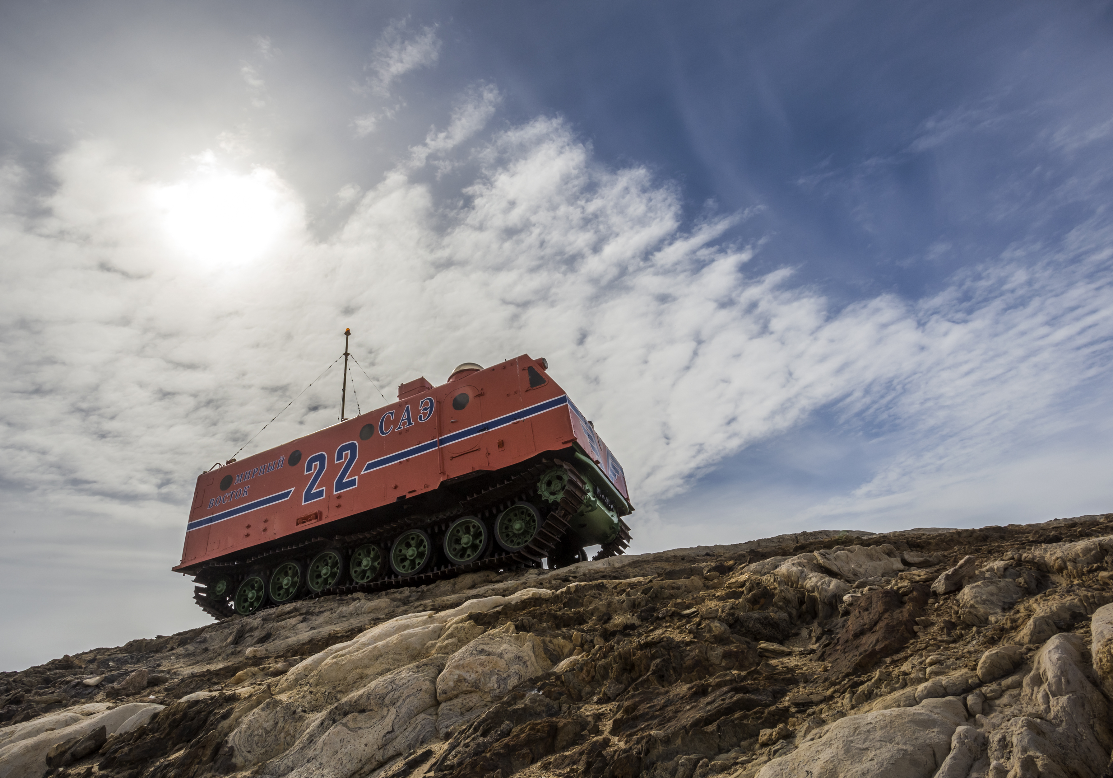 Oversnow heavy tractor “Kharkovchanka” that was used in Antarctica from 1959 to 2010.